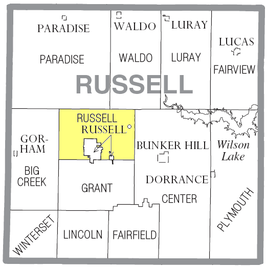 Map of Russell County, Kansas highlighting Russell Township